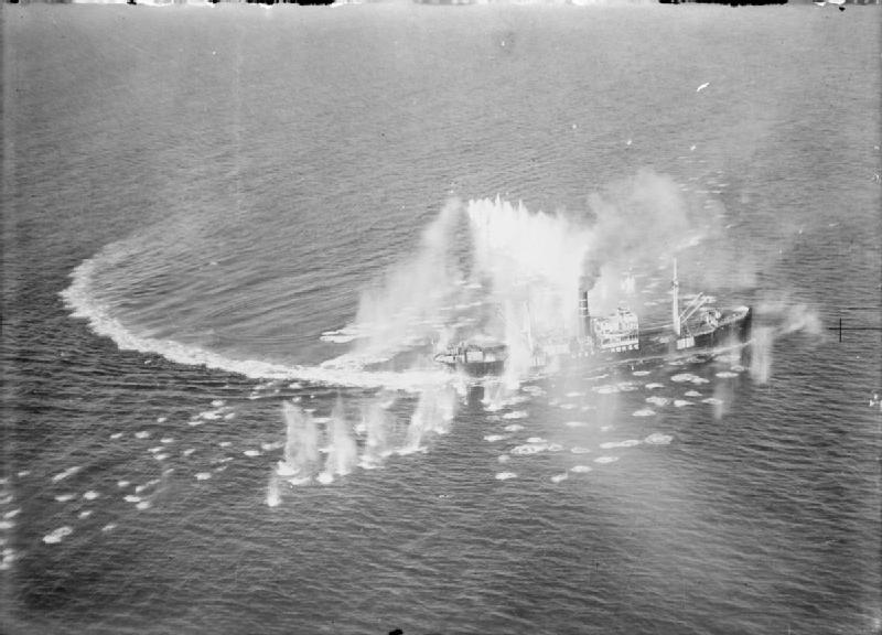 Royal Air Force 1939-1945- Coastal Command The Norwegian-registered D/S URSA manoeuvres desperately to avoid rocket and cannon fire from aircraft of the Banff Strike Wing, 19 September 1944. Three steamships - URSA, LYNX and TYRIFJORD - were making their way from Hamburg to Tromso and Hammerfest when attacked by 21 Beaufighters and 11 Mosqiutos in a fjord near Stavenes. URSA suffered damage but survived, while the other two vessels were sunk. A Beaufighter of No 144 Squadron was shot down.